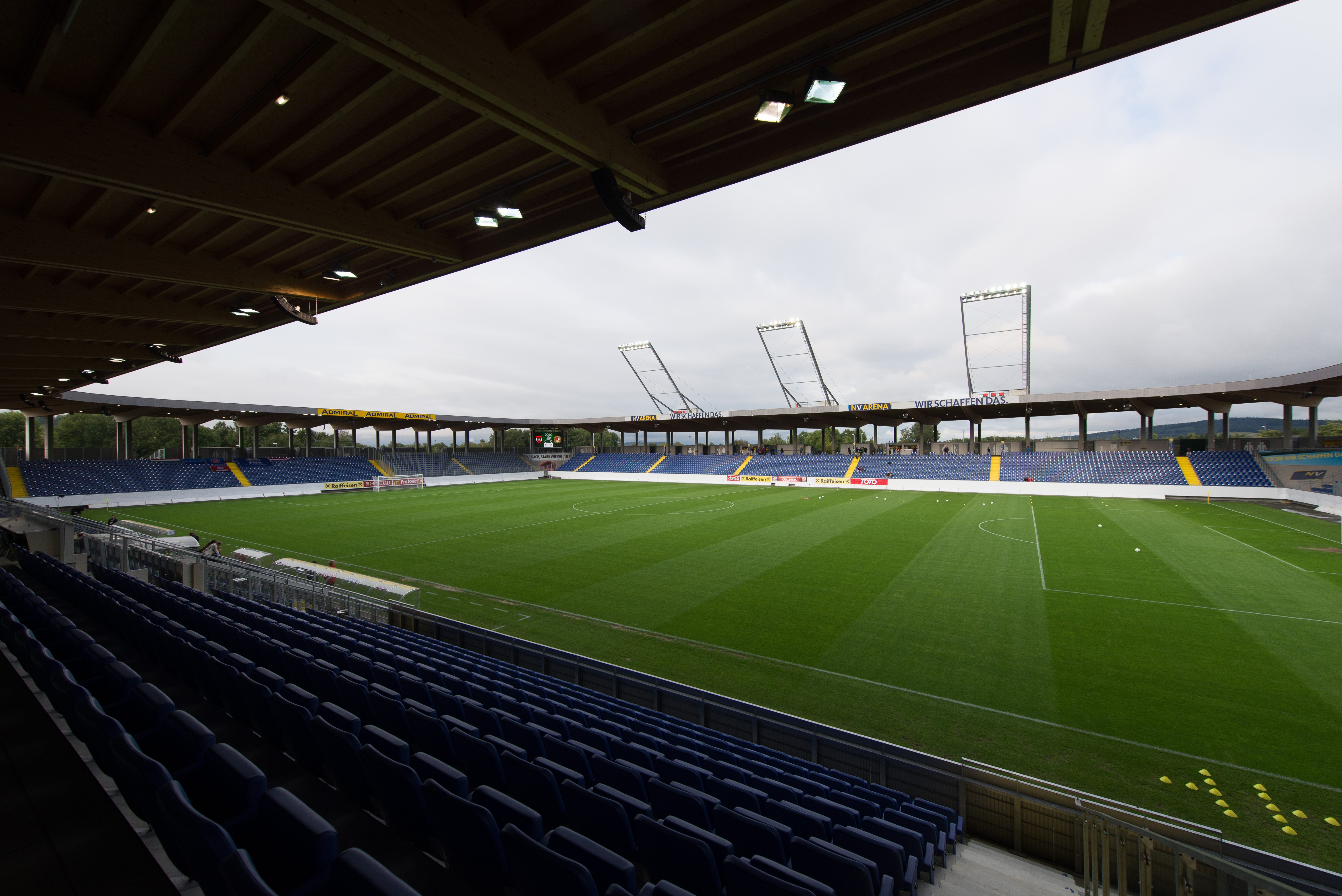 FIFA Women's World Cup 2015: Qualifying Round St. Pölten, 13.09.2014